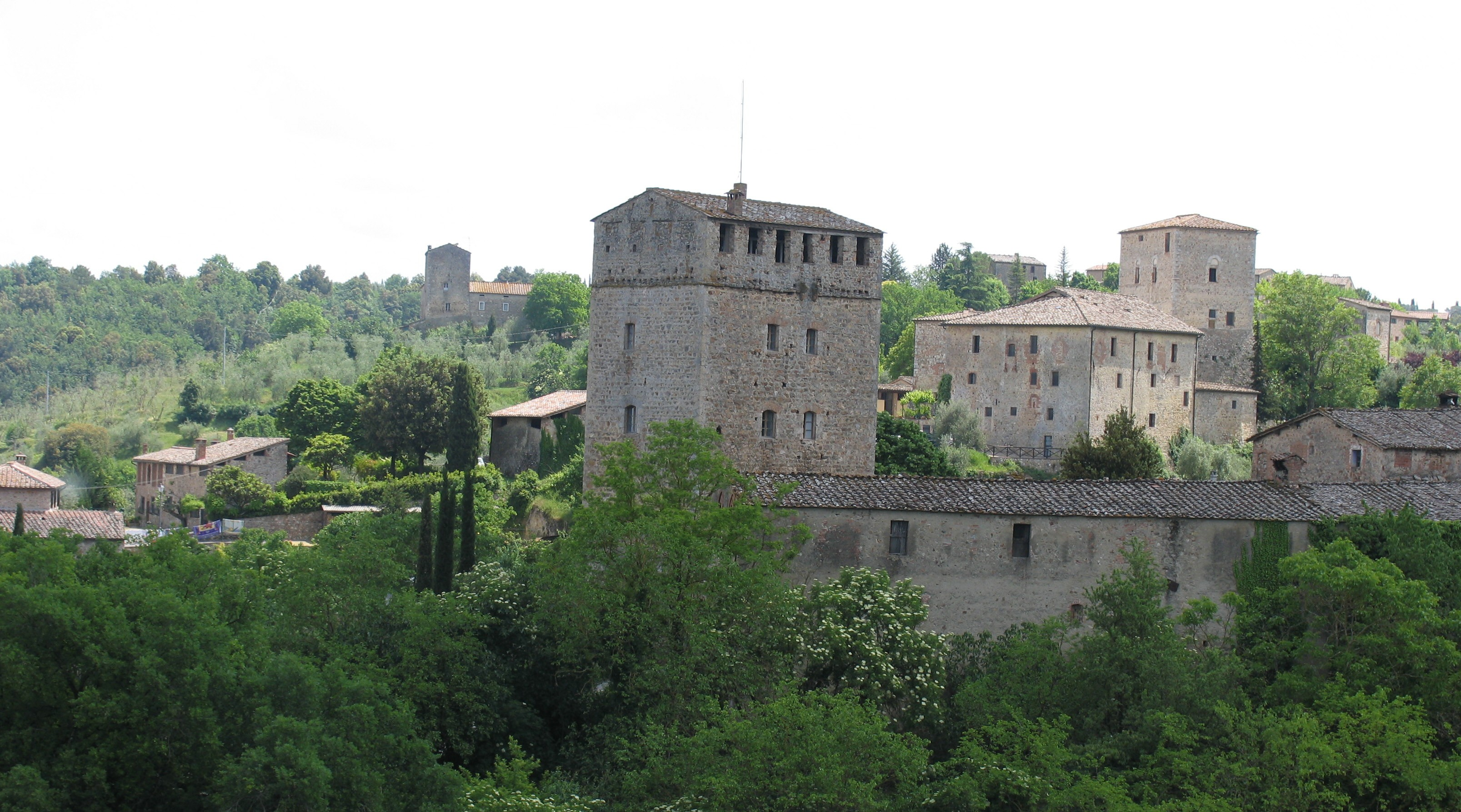 landscape of stigliano